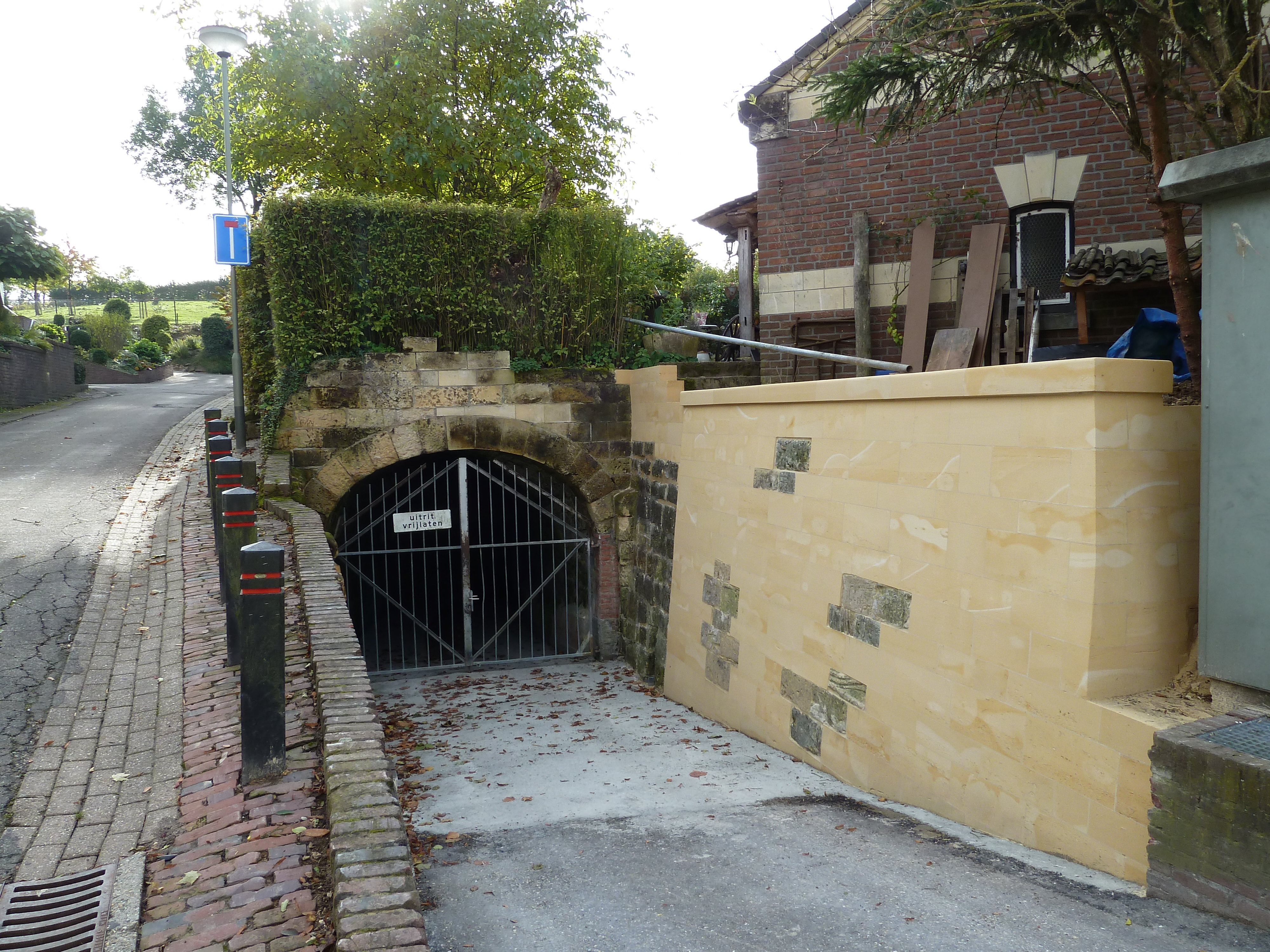 Sibbergroeve, Sibbe, Limburg, the Netherlands